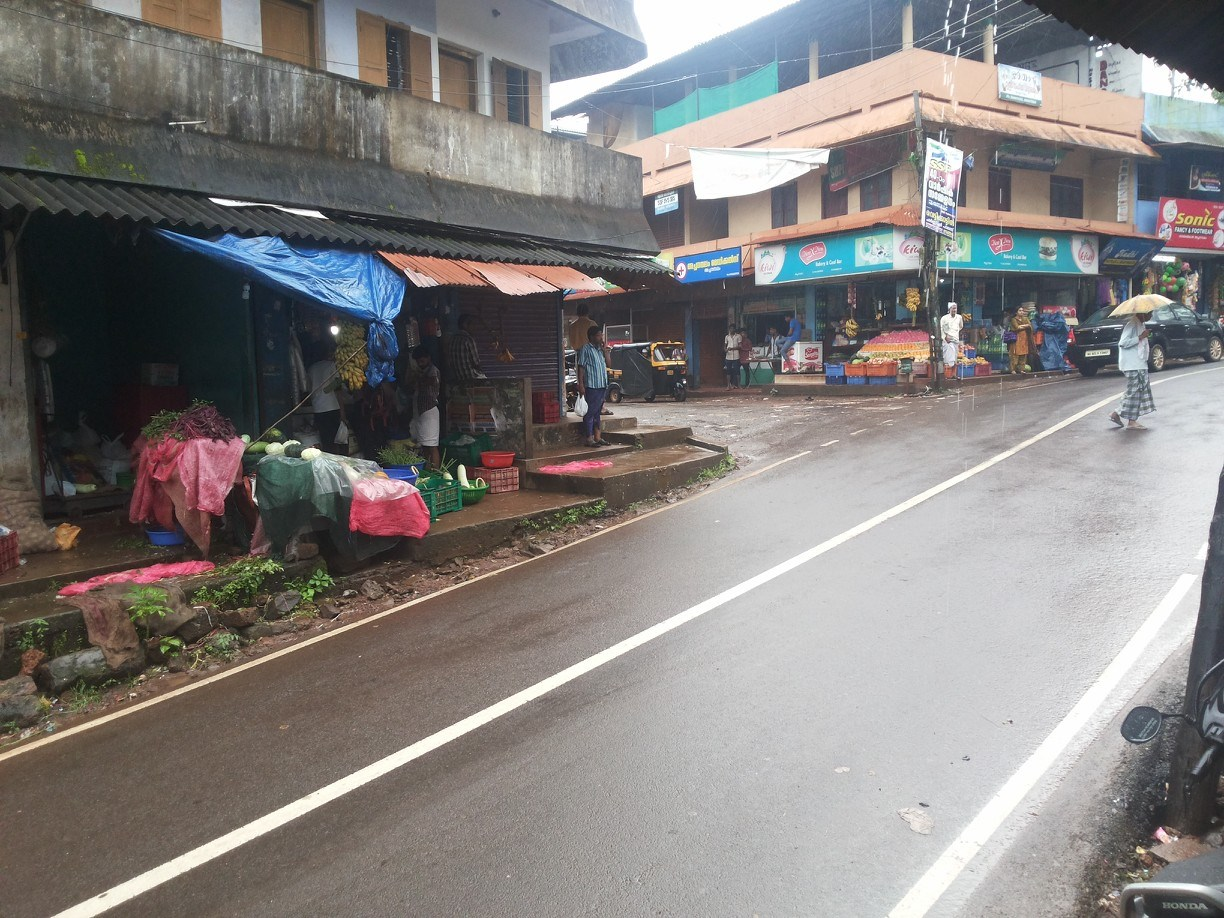 Achanambalam Town